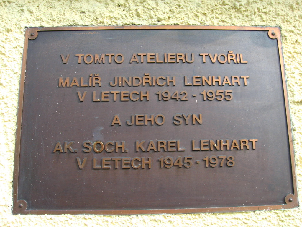 Memorial plaque of czech sculptor Karel Lenhart and his father, painter Jindřich Lenhart in Olomouc